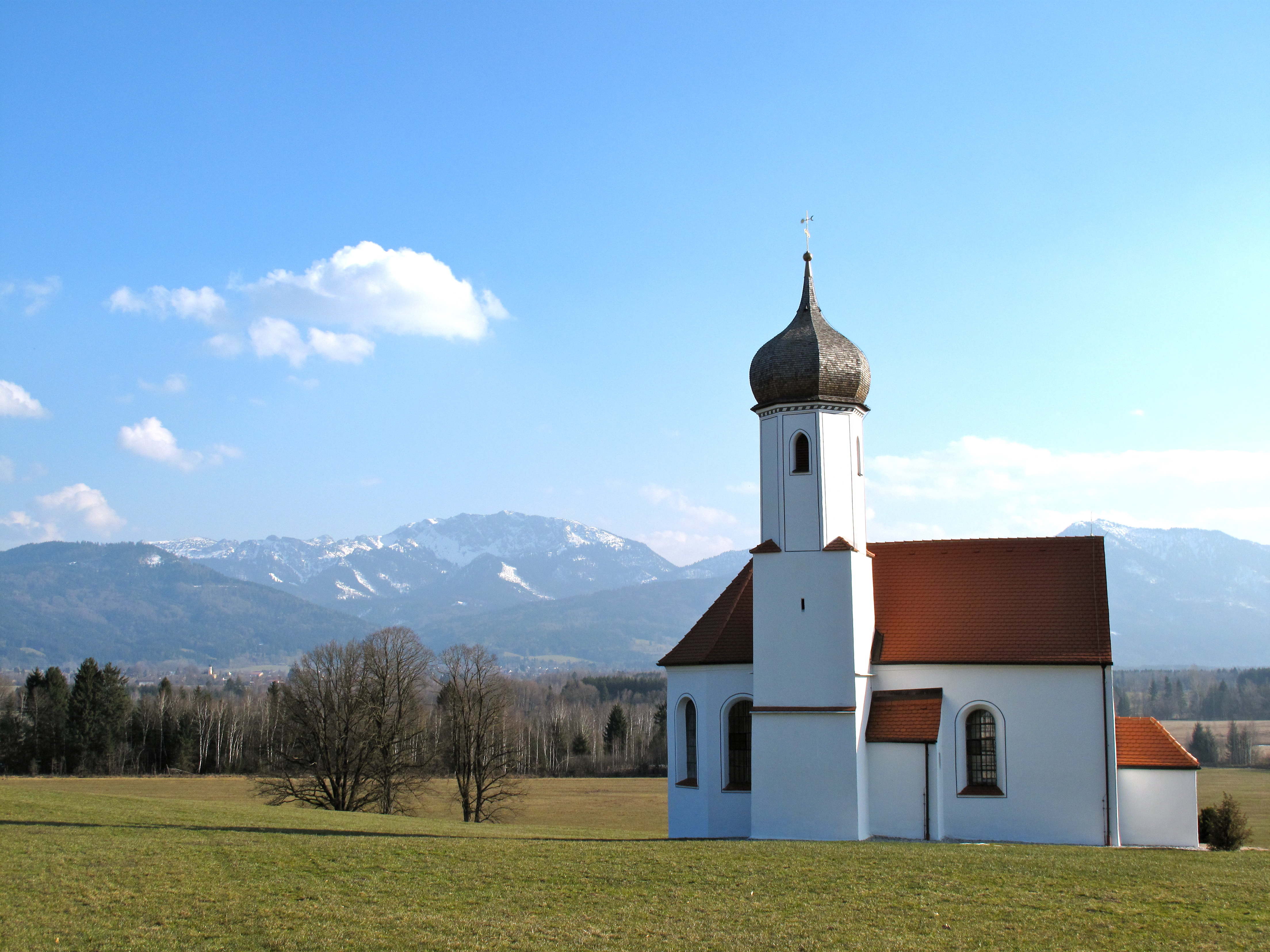 The church St. Johannisrain in St. Johannisrain close to Penzberg, Upper Bavaria, Germany.